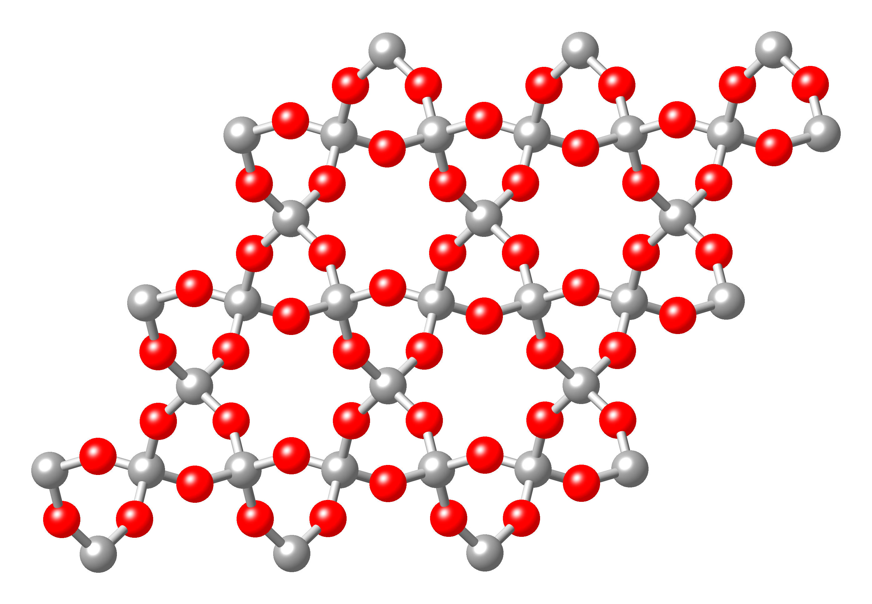 Ball-and-stick model of part of the crystal structure β-quartz, a form of silicon dioxide, SiO2. Image generated in CrystalMaker 8.1. Structural data from the CrystalMaker structure library.